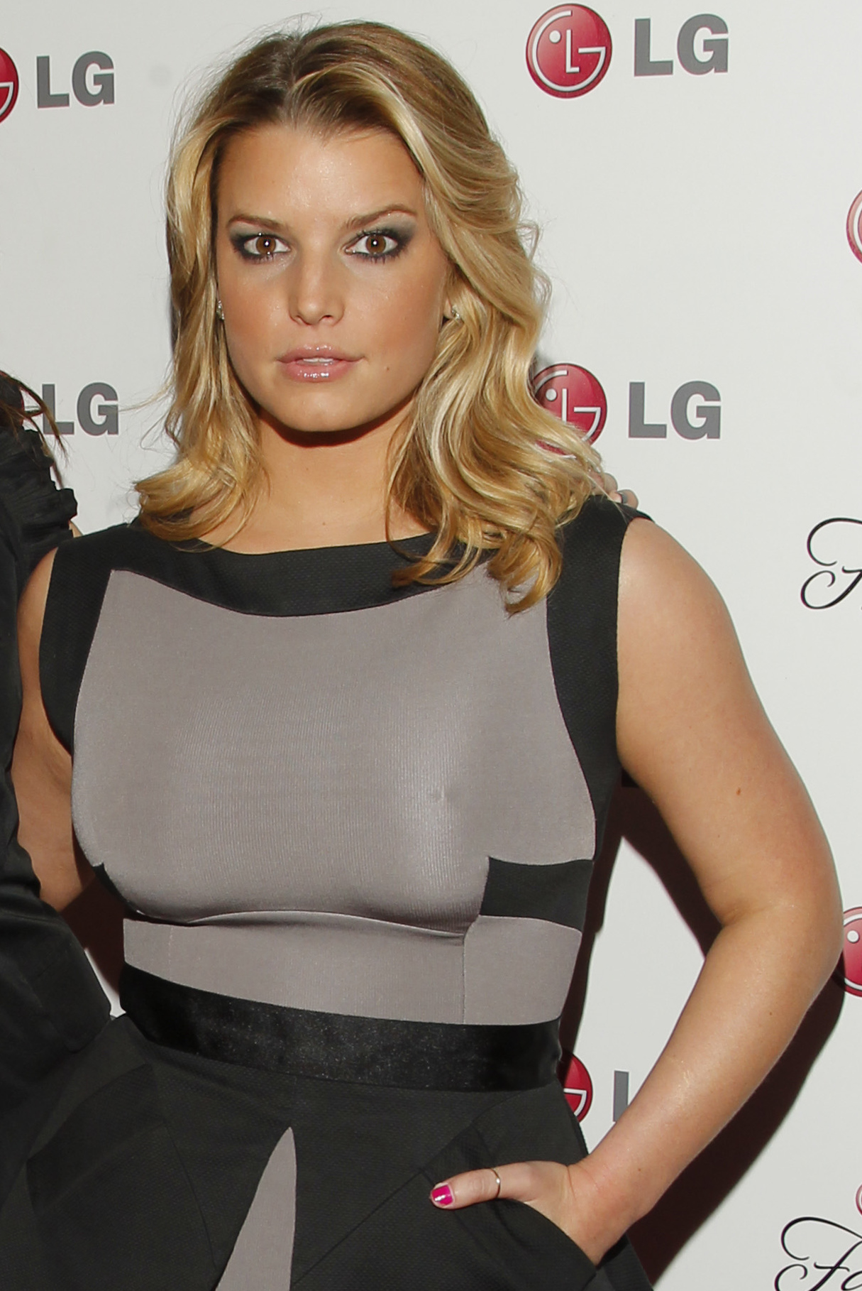 Singer Jessica Simpson at the Victoria Beckham & Eva Longoria Parker "A Night of Fashion & Technology with LG Mobile Phones".